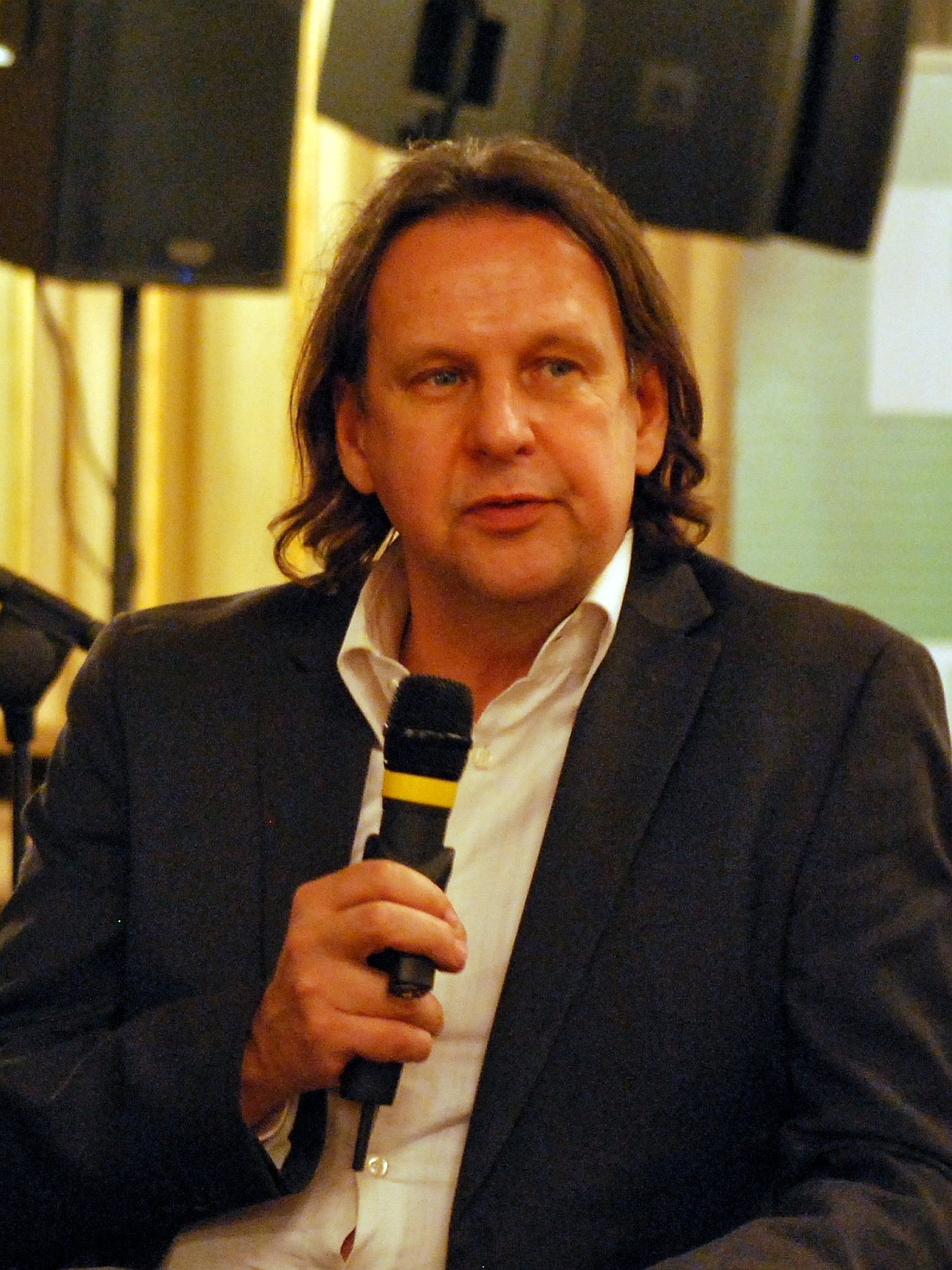 Tomasz Bocheński, polish literary theorist and critic